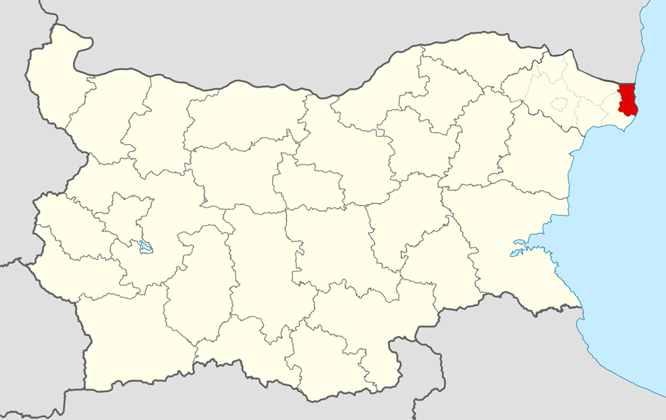 Location map of Shabla Municipality within Bulgaria and Dobrich Province. Equirectangular projection, N/S stretching 130 %. Geographic limits of the map: N: 44.4° N S: 41.1° N W: 22.1° E E: 28.9° E